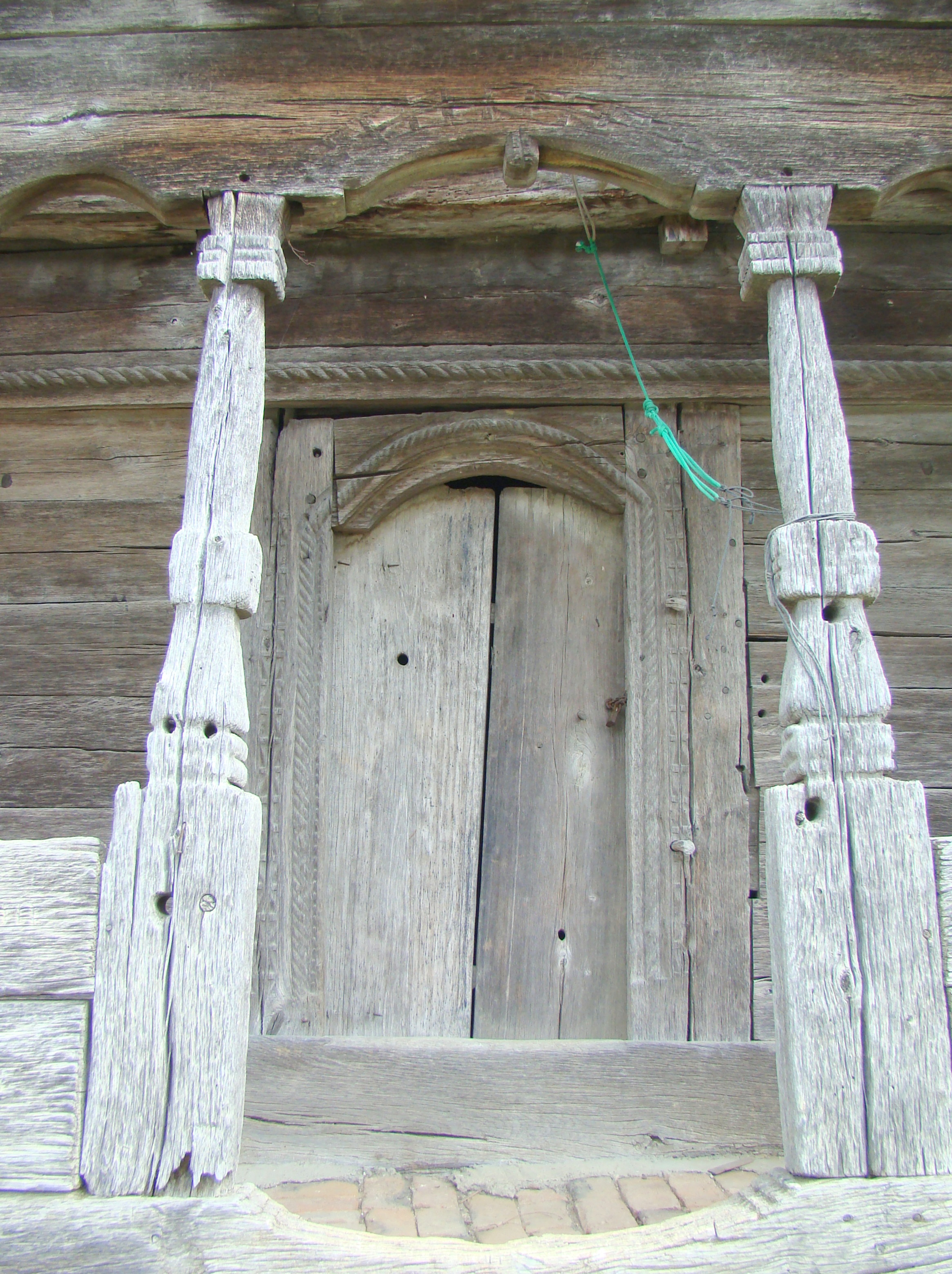 Wooden church of Saint Paraskeva in Glodeni, Gorj county, Romania